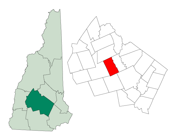 Map of a municipality in Merrimack County, New Hampshire